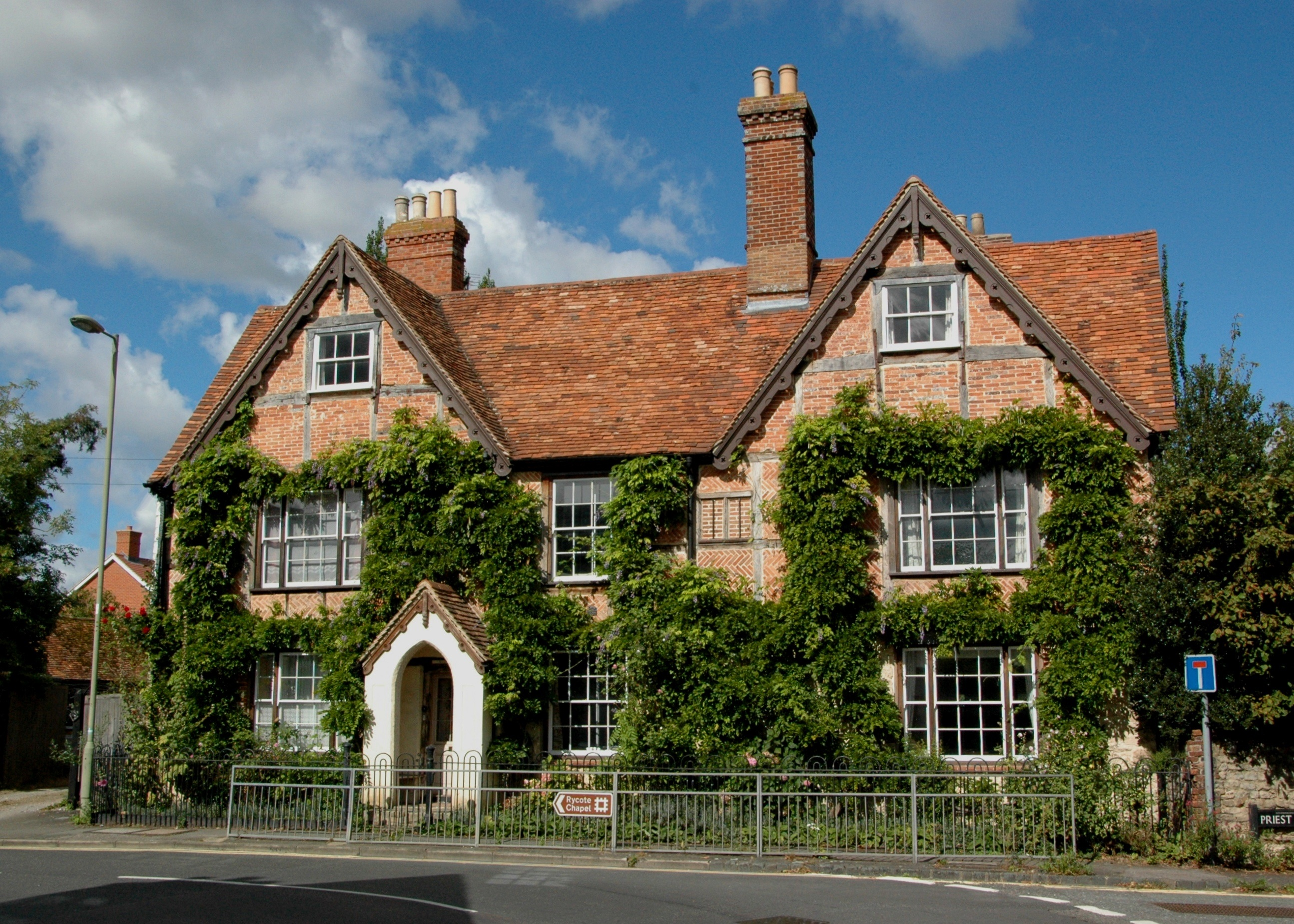 Stribblehills, Priest End, Thame, Oxfordshire seen from the southeast